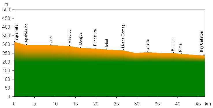 elevation profile of the railway track Apahida-Dej